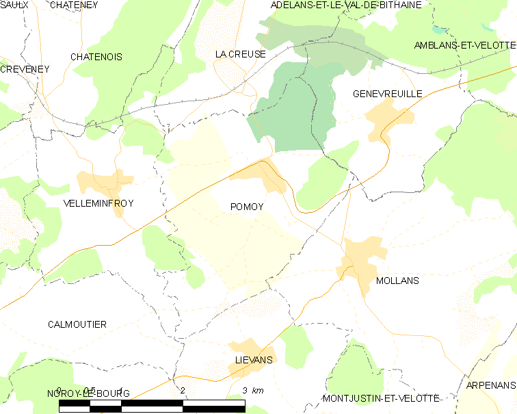 Map of French municipality